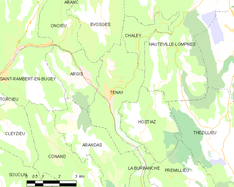 Map of French commune: Tenay Map commune FR insee code 01416.png